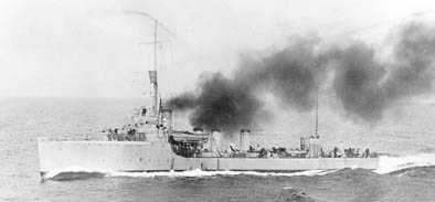 Picture of the Swedish destroyer HMS Wachtmeister (10/26).